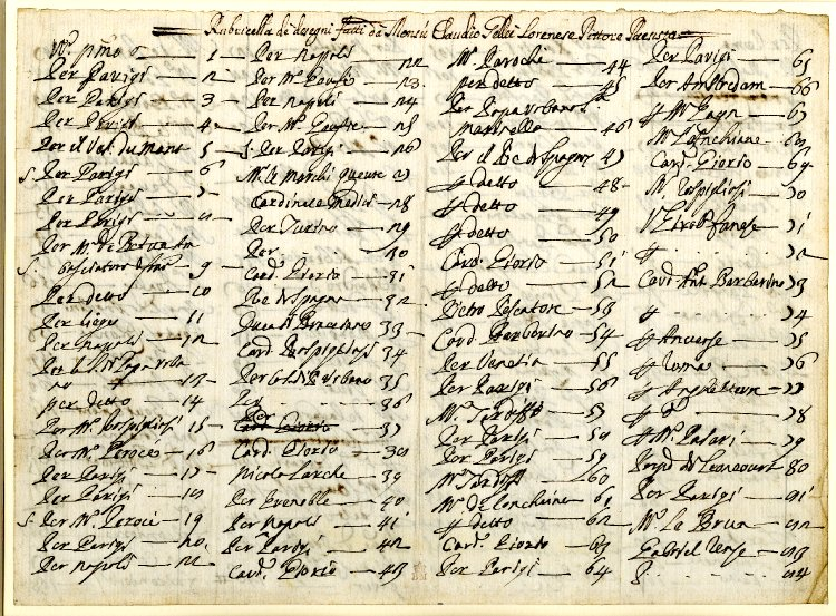 Page from the Liber Veritatis of Claude Lorrain, index